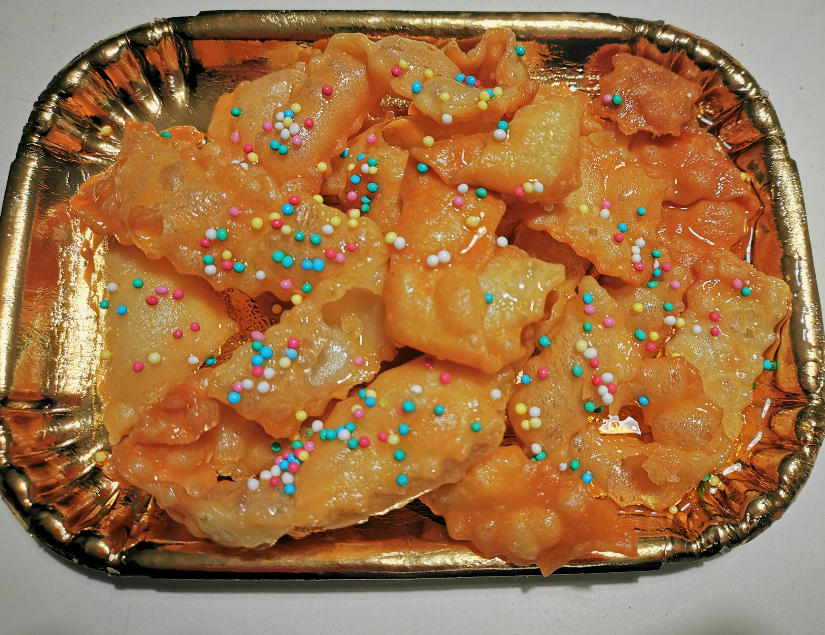 These are "Cartellate" (in dialect "cartiddati") with honey.